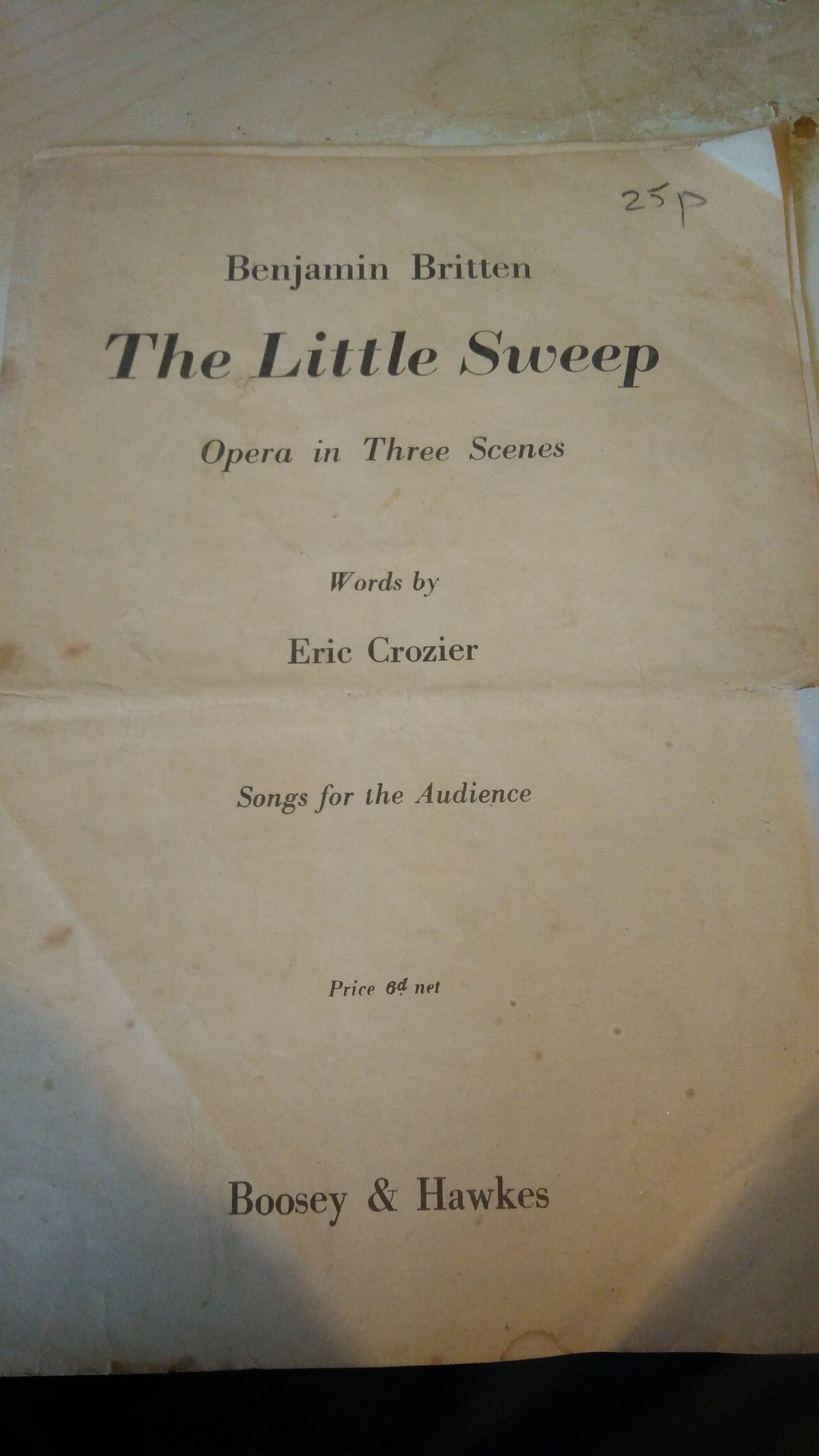 Title page of the "Songs for the audience" booklet, handed to the audience in the original production of The Little Sweep.